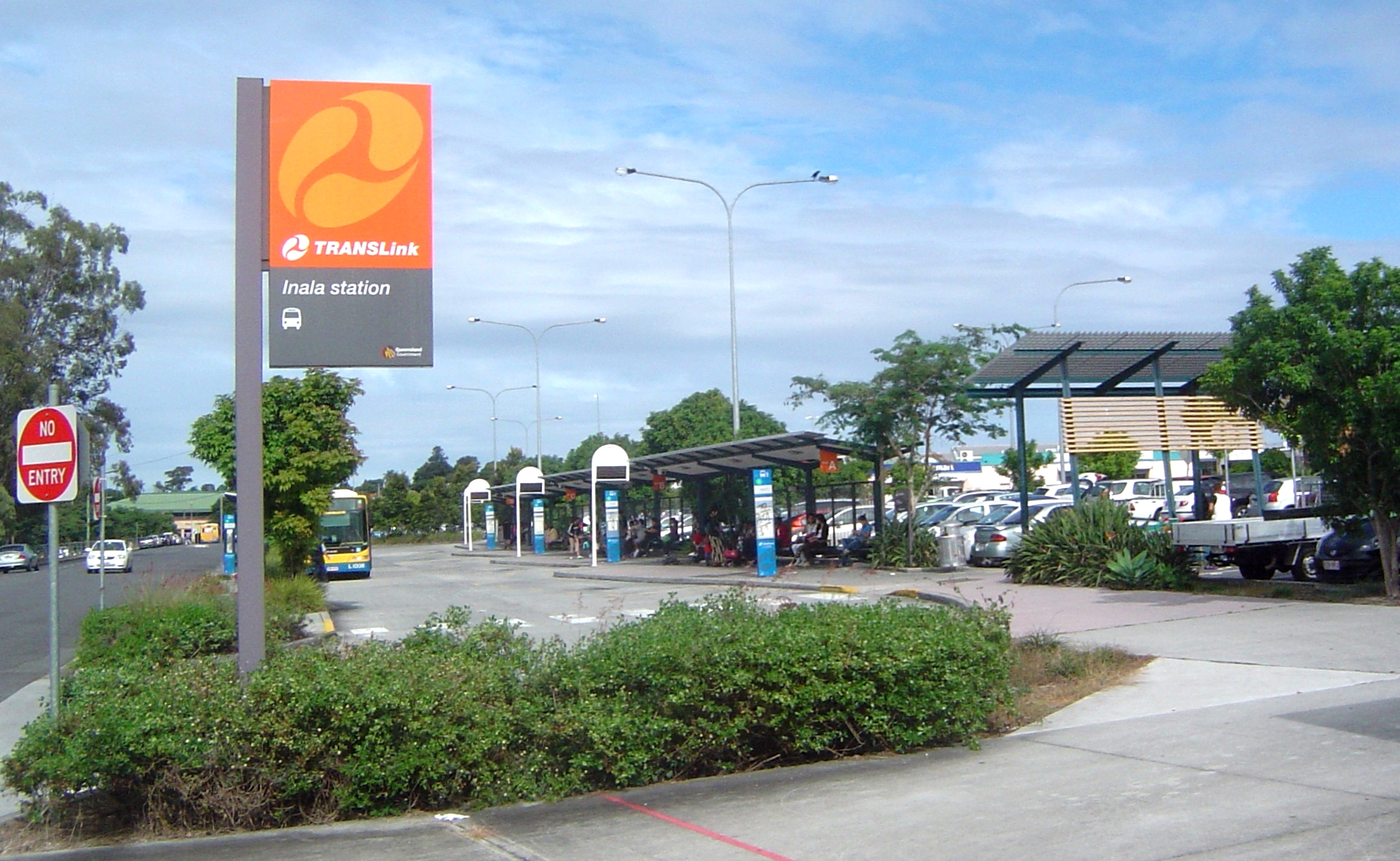 Photo of Inala Plaza Bus Station, Inala, Queensland, Australia